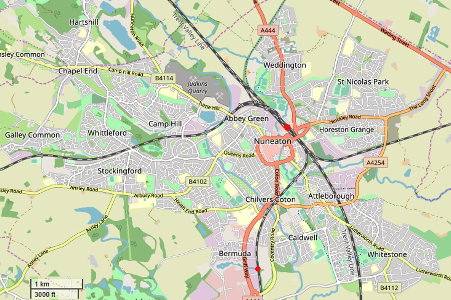 Map of Nuneaton This map may be incomplete, and may contain errors. Don't rely solely on it for navigation.